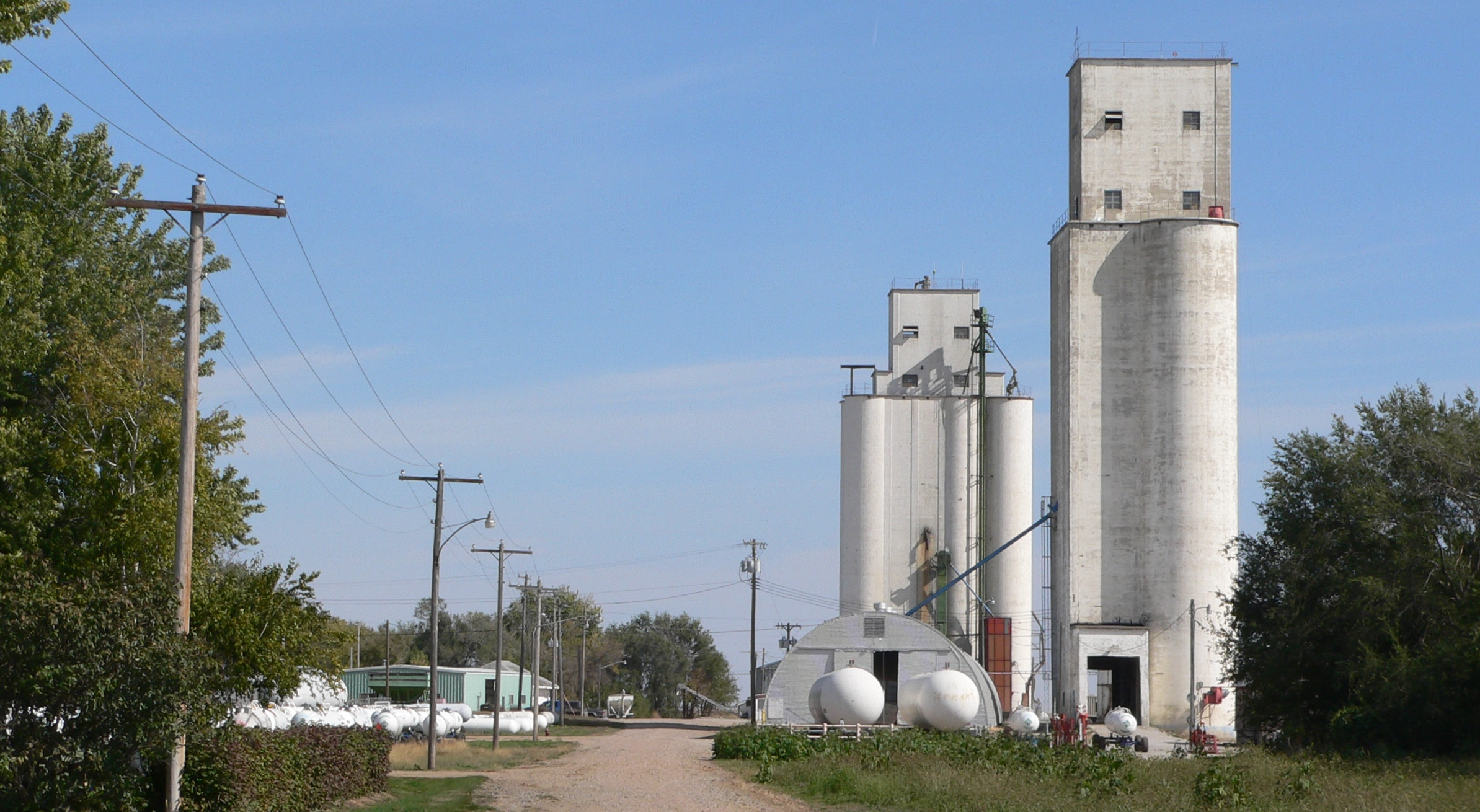 Grain elevators in Ong, Nebraska; seen from the west.